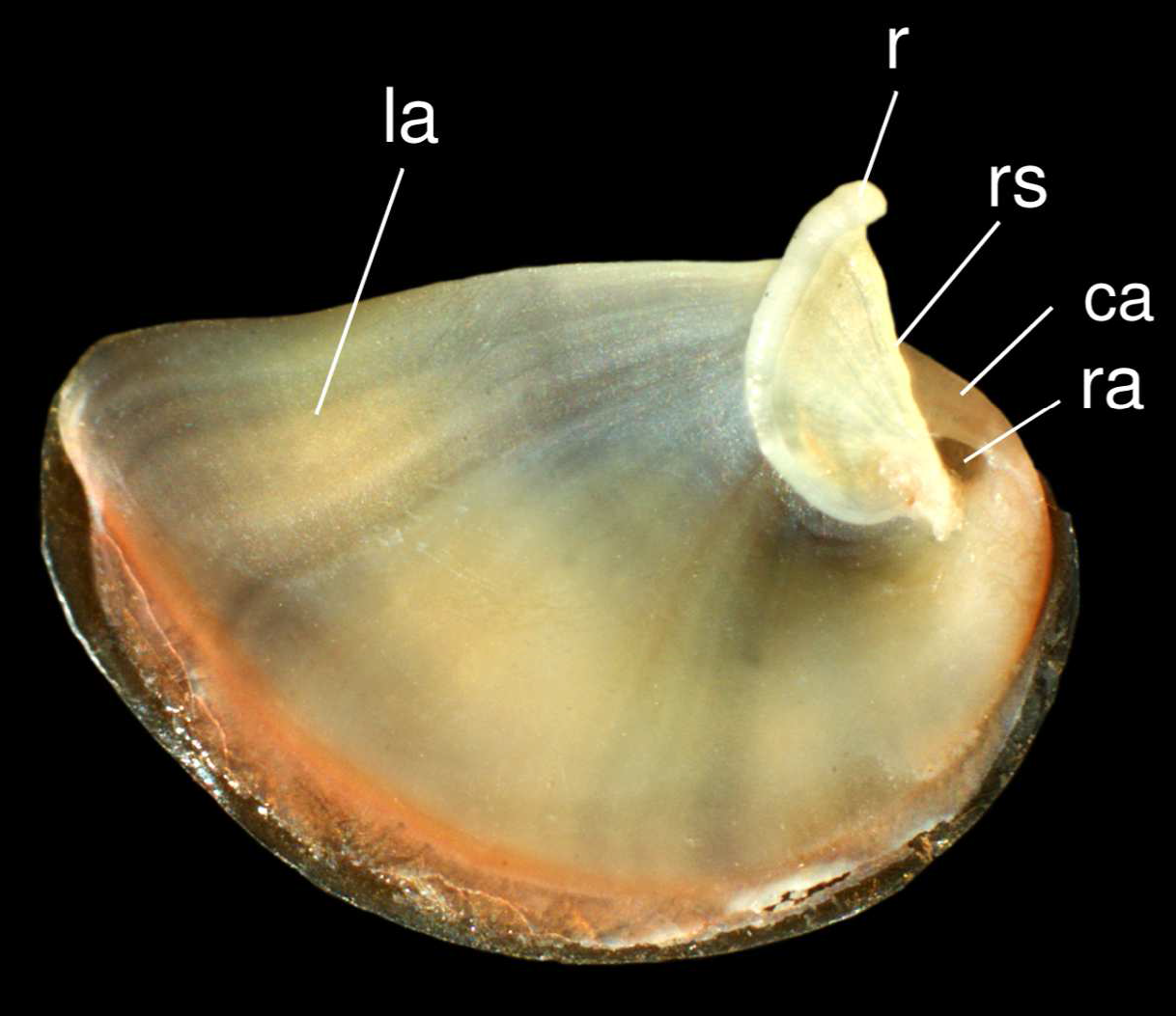 Photo of an inner side of an operculum of Thedoxus fluviatilis. la - left adductor, r - rib, rs - rib shield, ca - callus, ra - right adductor.